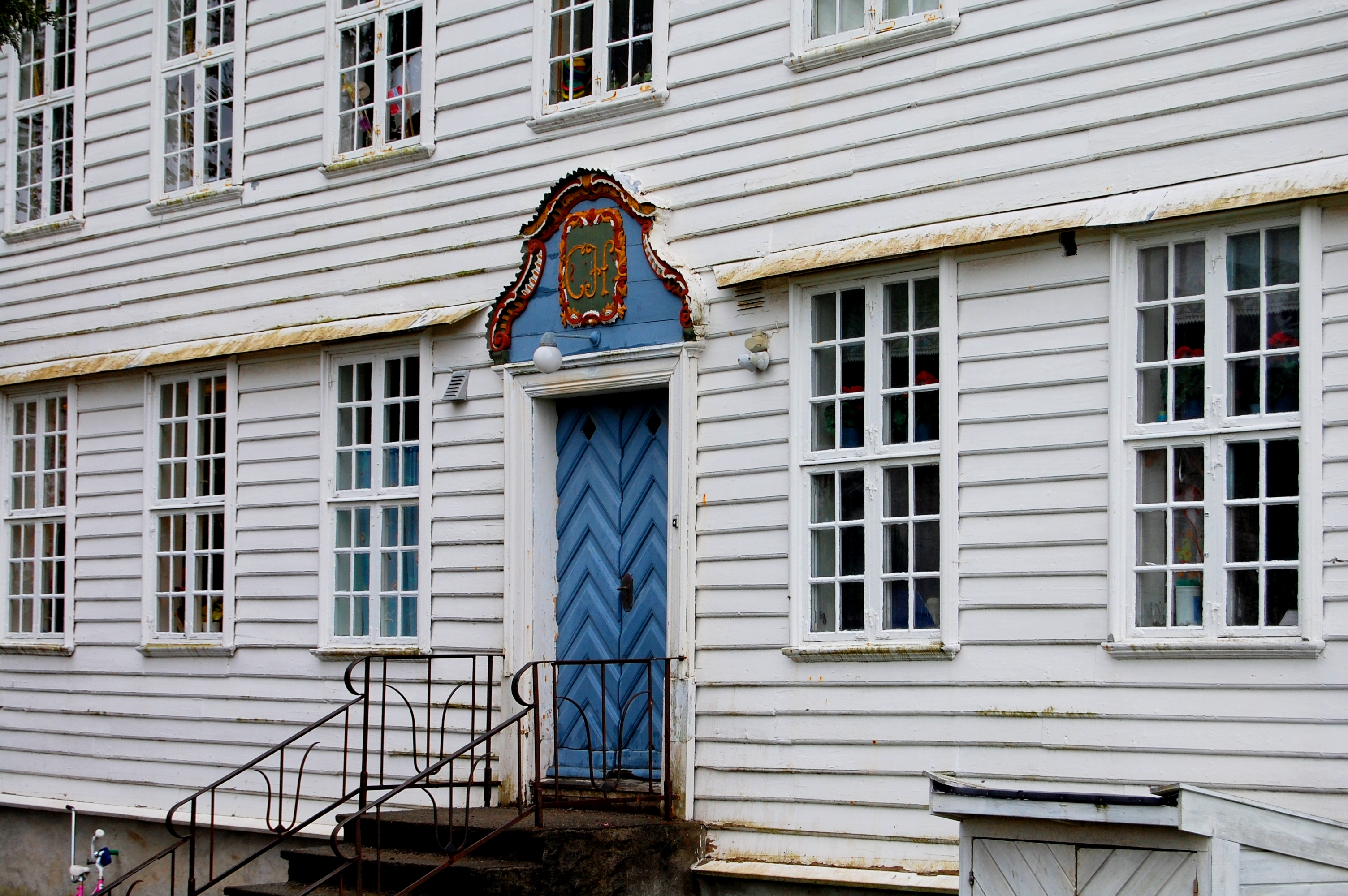 Portal, Frekhaug, Alver, Norway